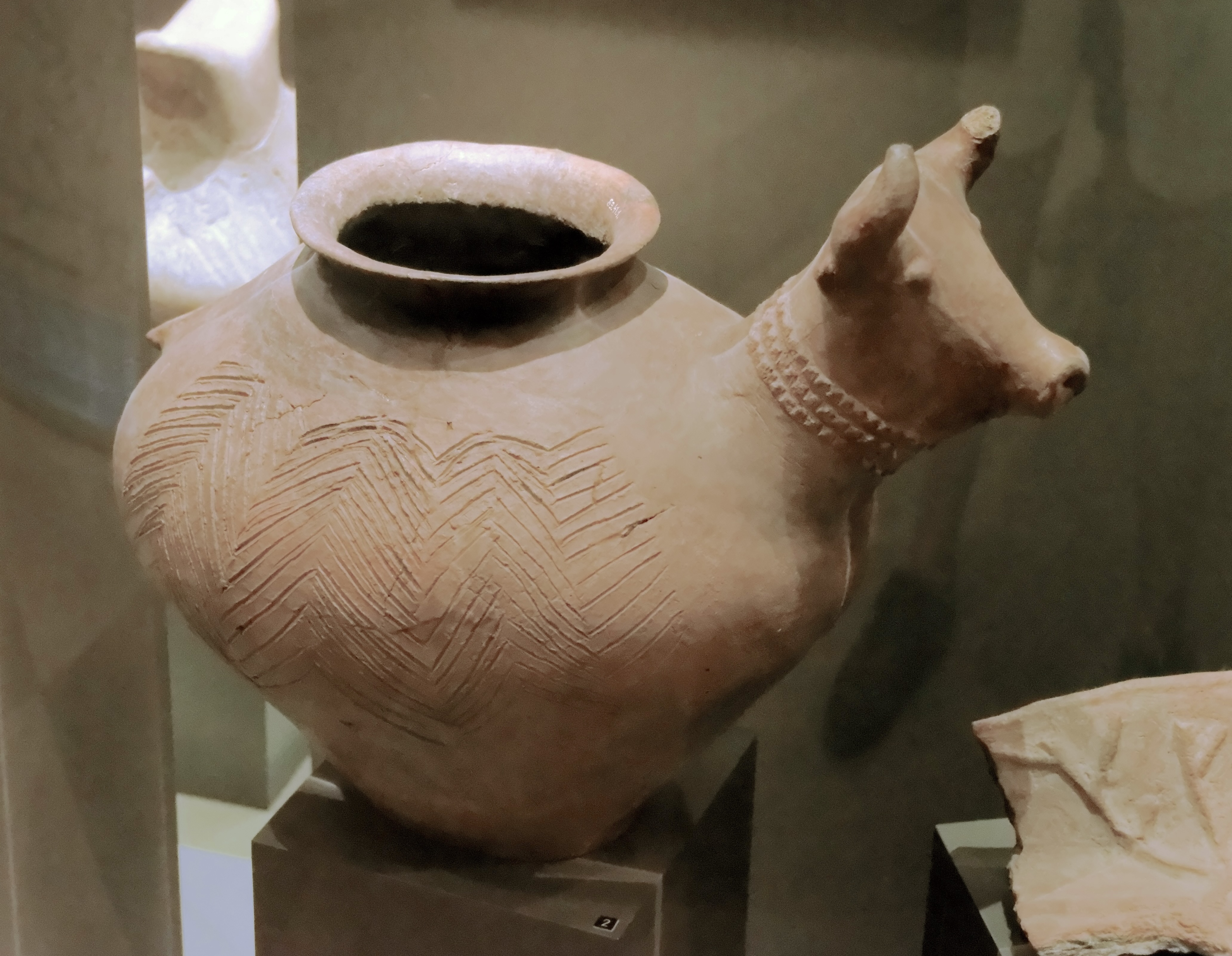 Representation of animals from neolithic period. Zoomorphic vessel. Bull from Vác (Hungary). Hungarian National Museum, Budapest